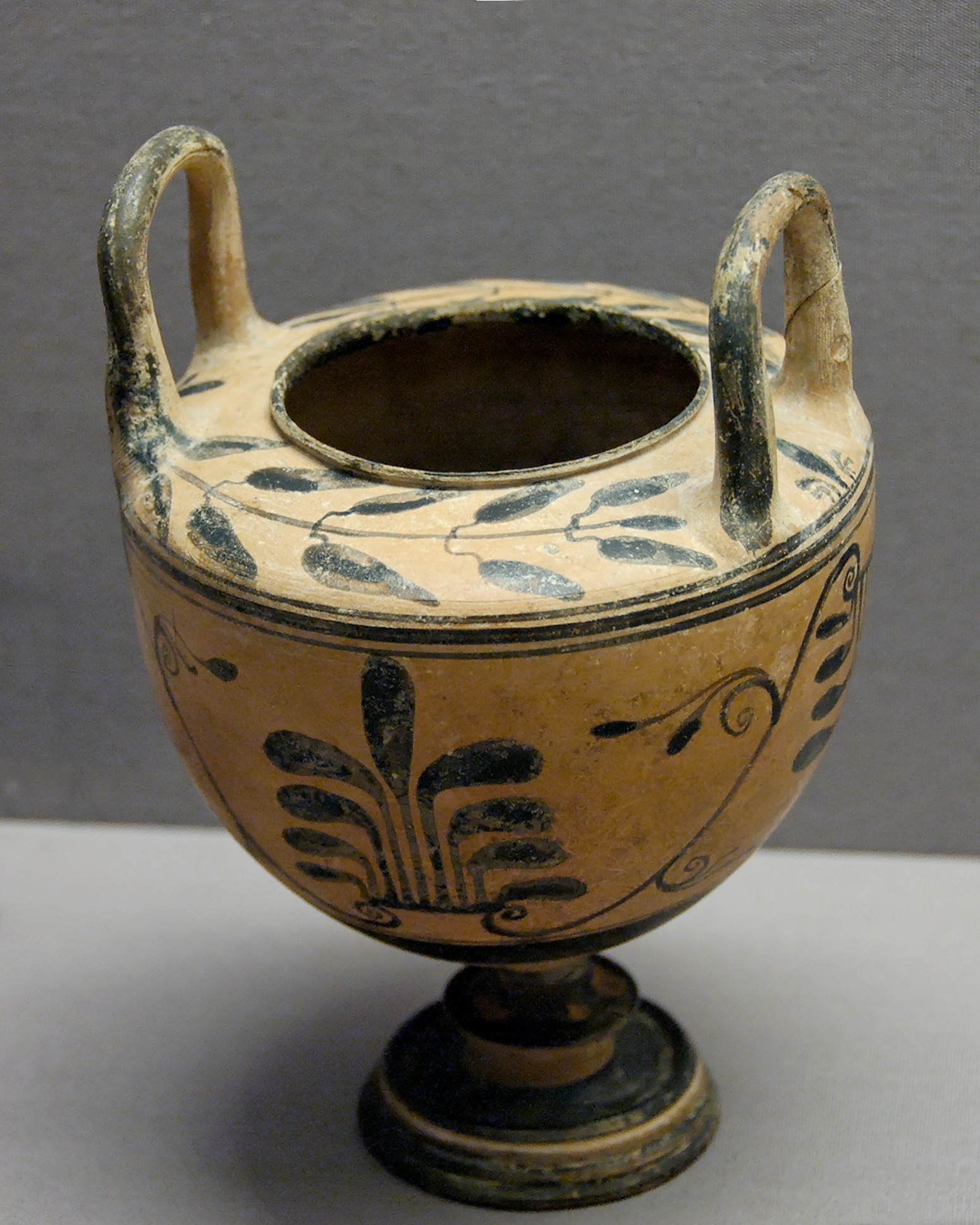 Pyxis with stylised palmettes and other florals, Easy Greek style (marbe Rhodes or Asia Minor), ca. 300 BC. Said to be from Pergamon.